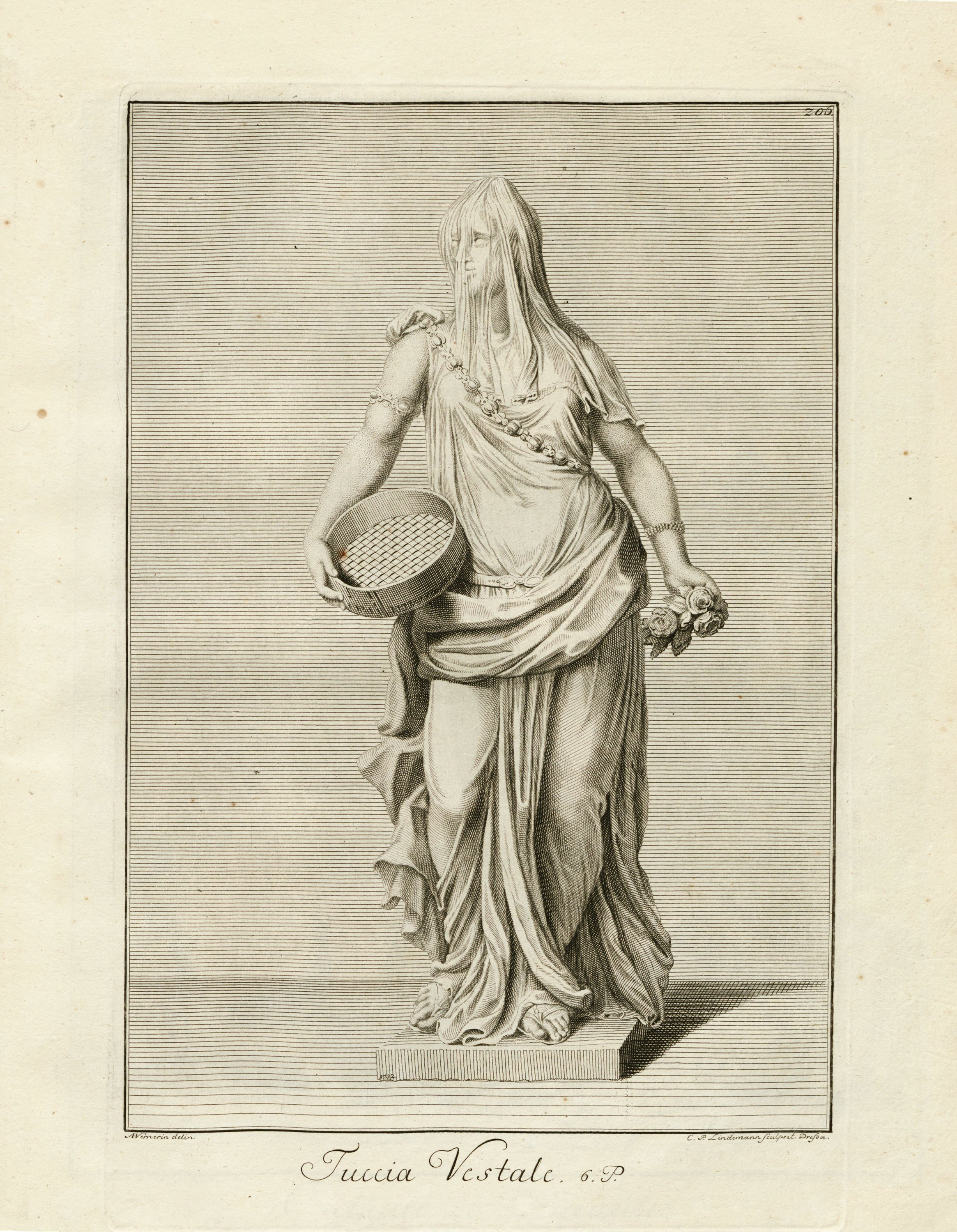 CP Lindemann, engraver (after Antonio Corradini). From a catalogue of the Staatliche Kunstsammlungen Dresden edited by Baron Raymond Le Plat. 1733.